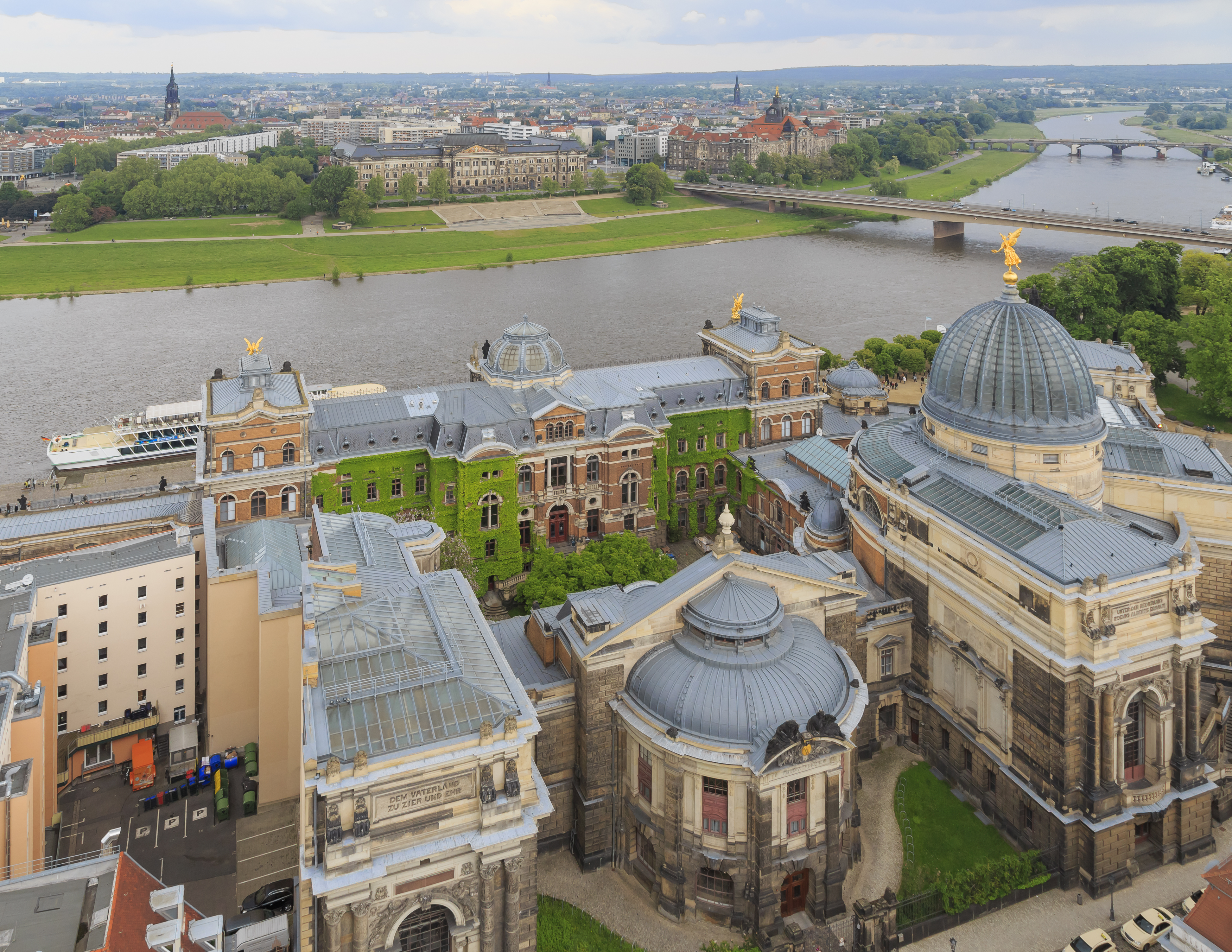 Dresden, Germany: View of Kunstakademie Dresden from Tower of Frauenkirche